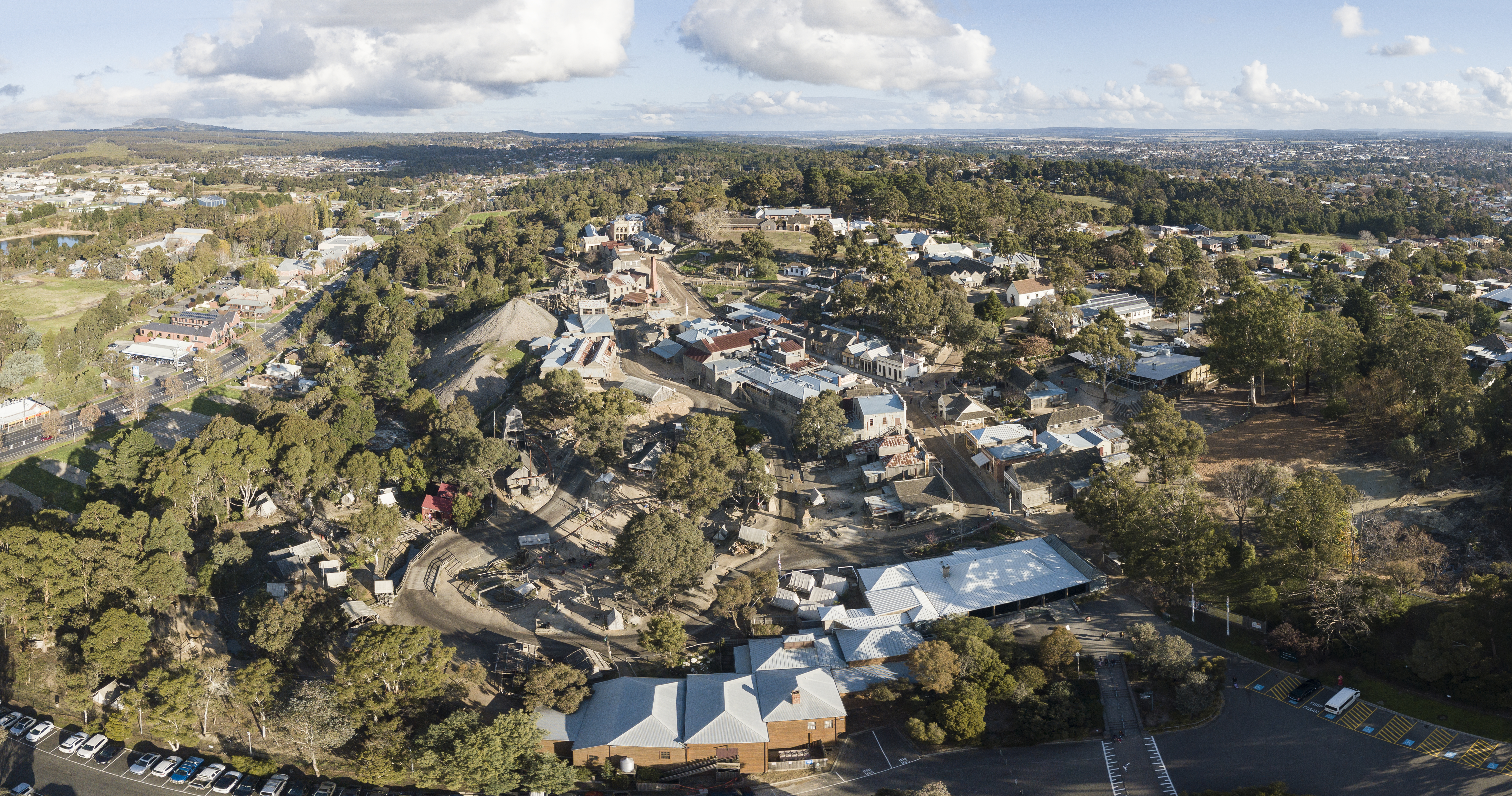 ballarat sovereign hill gold mine aerial panorama victoria australia 2018